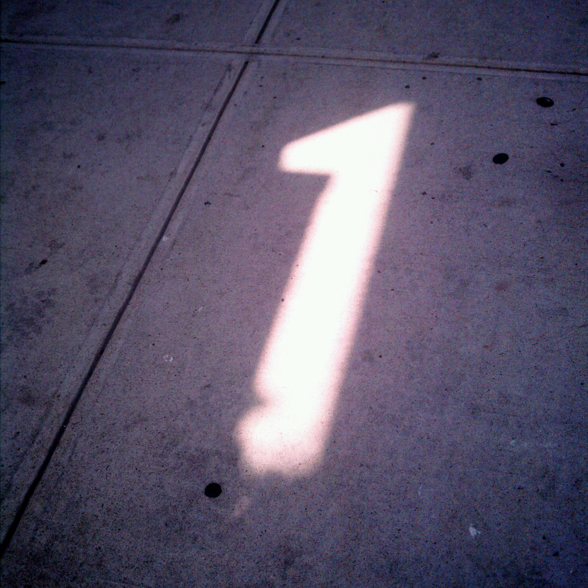 A number one light form.